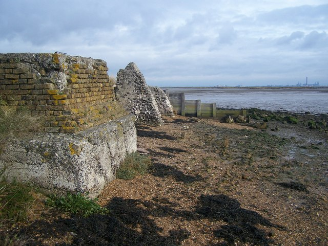 Horrid Hill Horrid Hill was an island until a causeway was built to allow a small horse-drawn railway to carry wagonloads of chalk, quarried from Twydall chalk pit, to the cement works. Warship hulks containing French prisoners of war were moored here during the Napoleonic Wars. It is now part of Riverside Country Park. Seen at low-tide, with groynes helping protect the peninsula. Isle of Grain Power Station seen in background on righthand side.